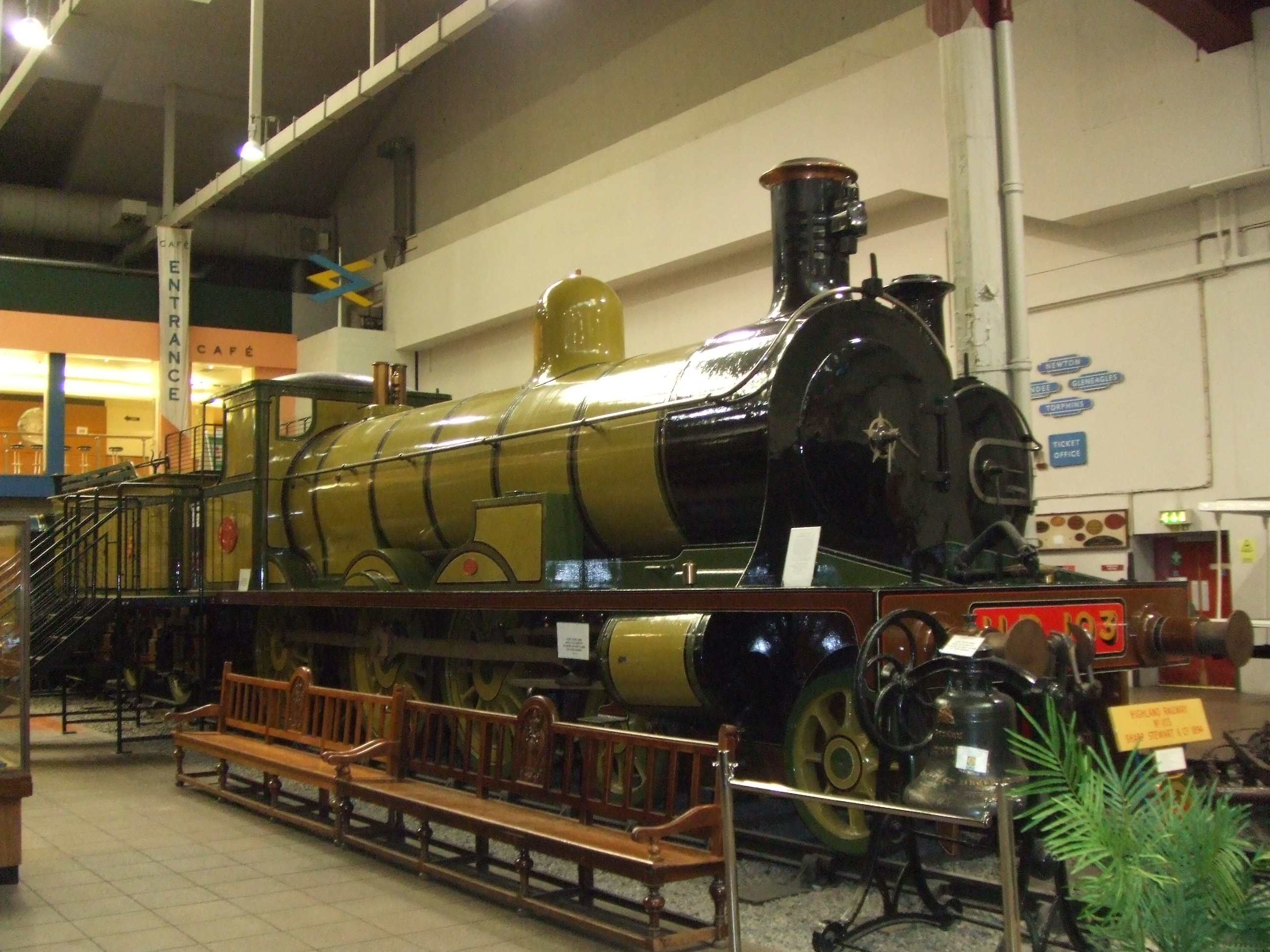 The first British 4-6-0, Highland Railway "Jones Goods" (L.M.S. "4F") No.103 (L.M.S. No.17916), built by Sharp, Stewart in 1894 (Works No.) and withdrawn in 1934. Although officially designed by David Jones, in reality is was entirely a Sharp, Stewart design and was little more than a copy of their standard 4-6-0 supplied to various Indian railways. Only the details such as the louvred chimney were changed. At the Museum of Transport, Glasgow, 03/07.